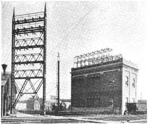 Photograph of West Philadelphia Substation of the Pennsylvania Railroad. Note similarity to Paoli substation design.